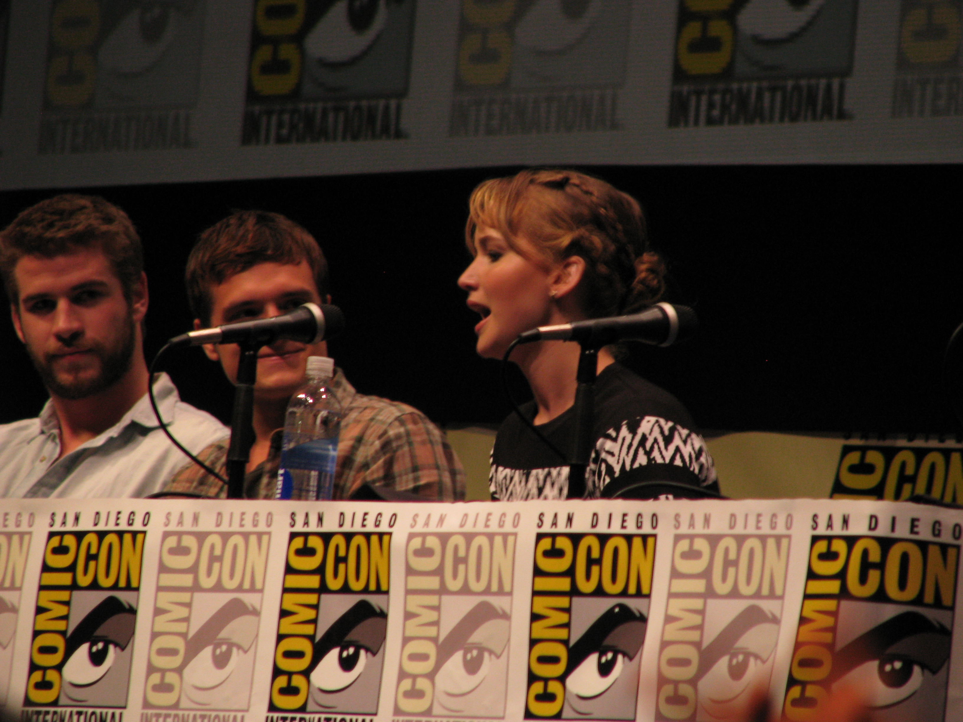 The Hunger Games: Catching Fire panel with [left to right] Liam Hemsworth, Josh Hutcherson, and Jennifer Lawrence